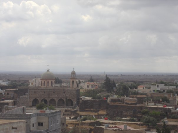 Citadel at old Khabab